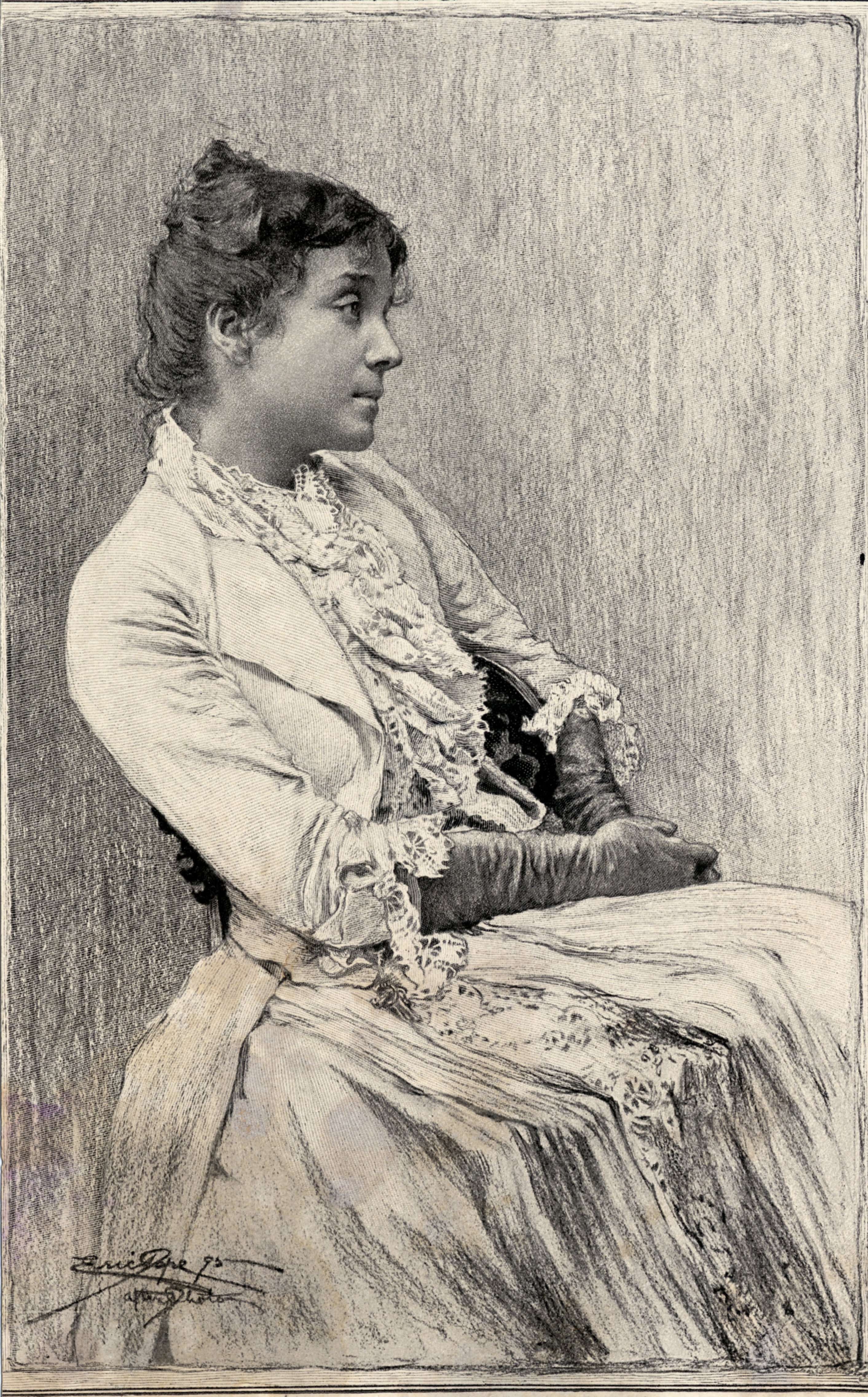 Italian actress Eleanora Duse